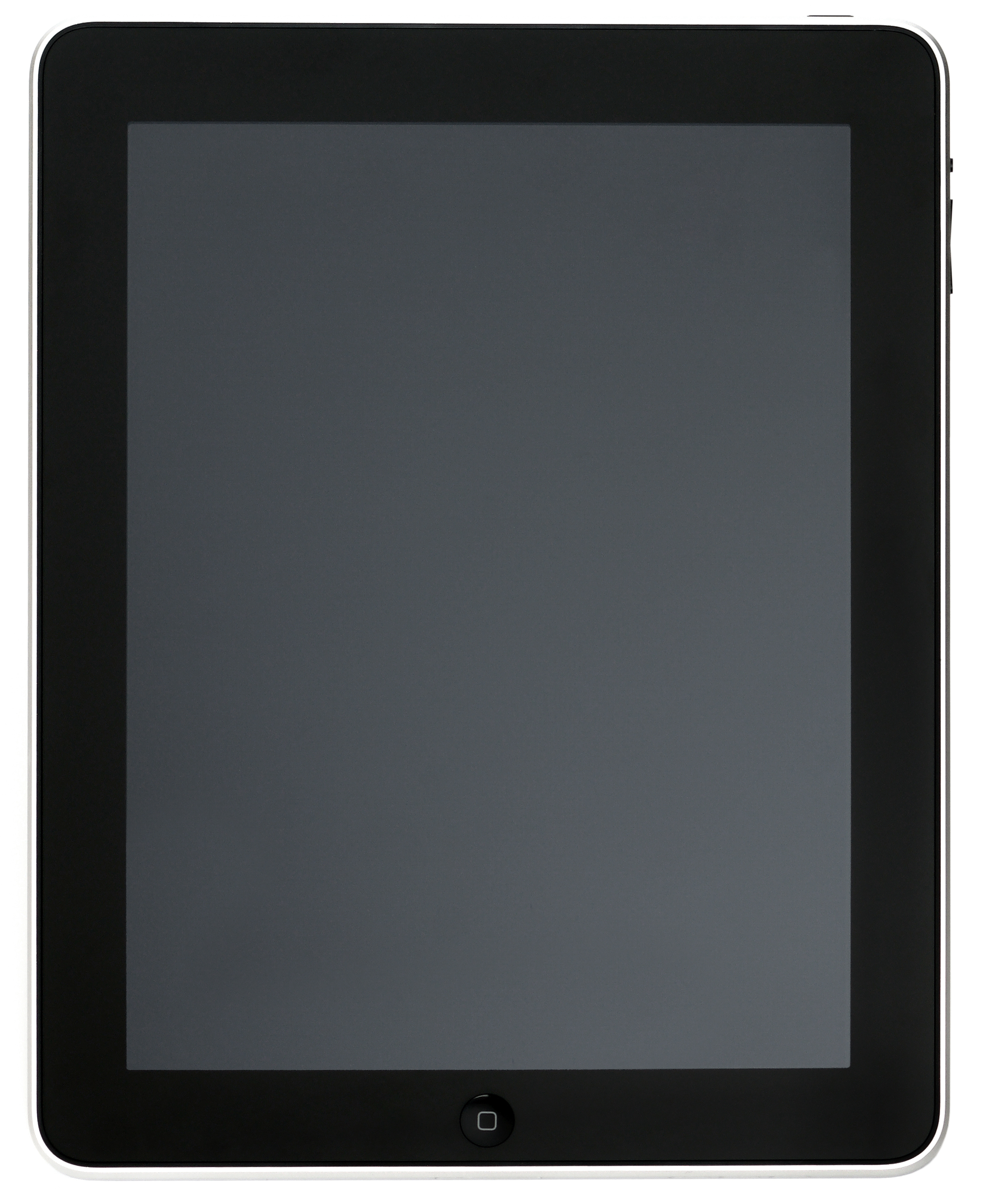 A 1st generation Apple iPad. This is the 32GB WiFi model.